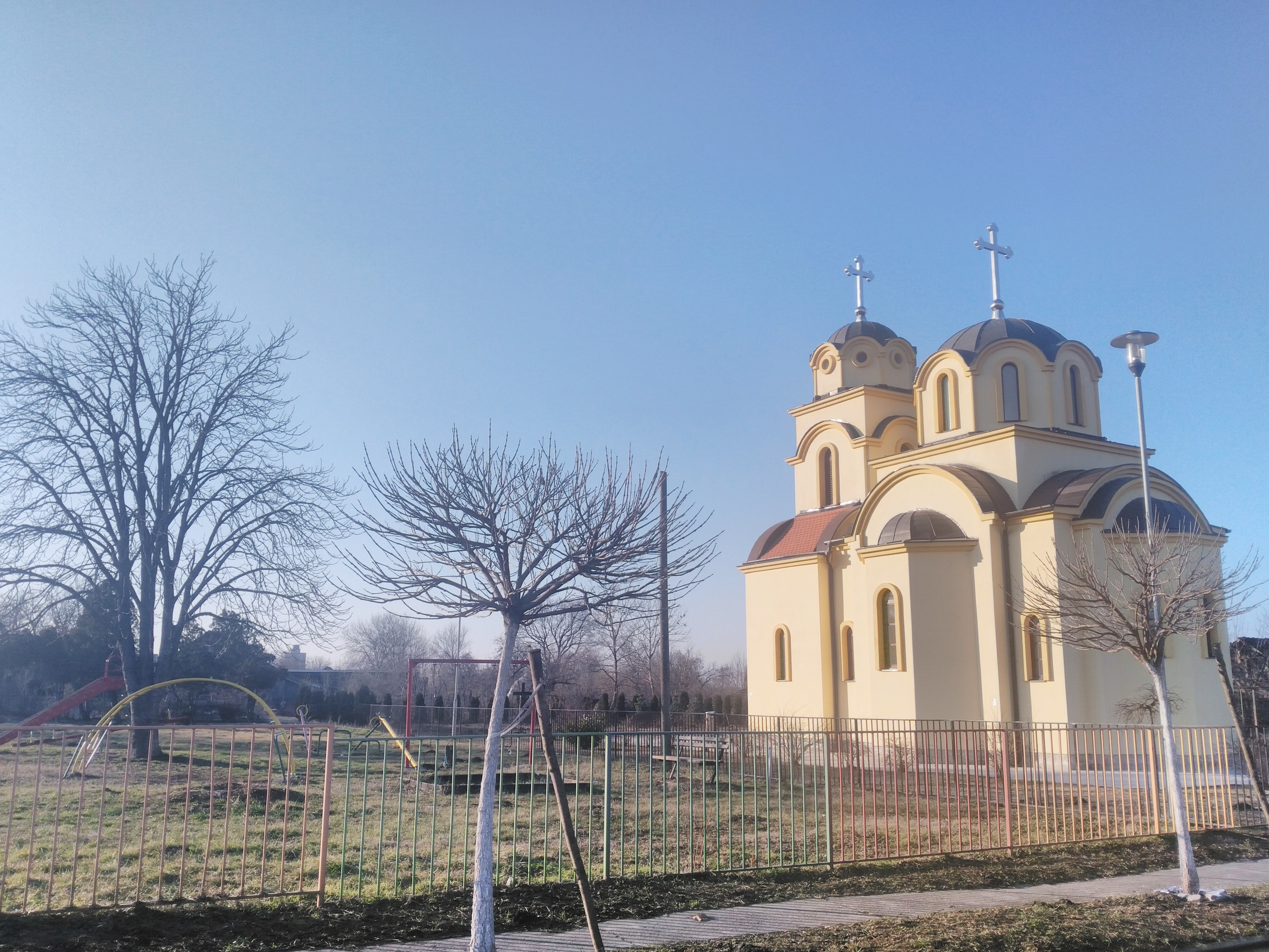 Serbian Orthodox Church in the village of Silaš.